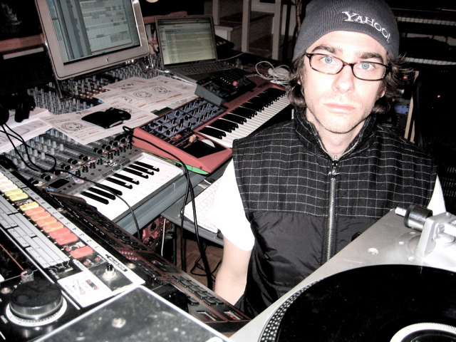 Matt Mahaffey in the studio